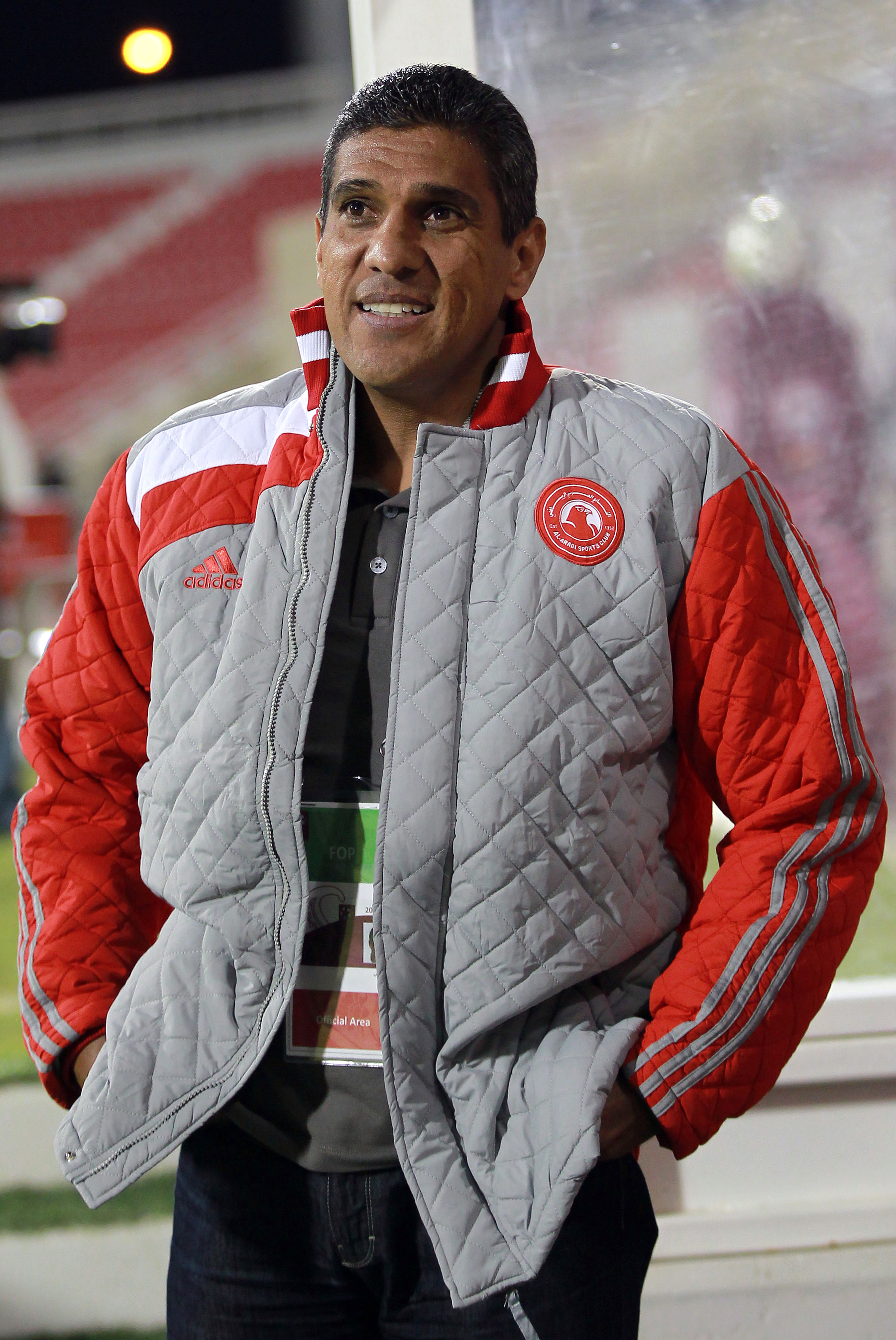 Al Arabi's Brazilian coach Paulo Silas prior to the start of their Qatar Stars league match. Pic by AK Bijuraj